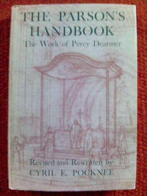 The front cover of the 13th revised edition (1965) of The Parson's Handbook by Percy Dearmer, revised and rewritten by Cyril E Pocknee